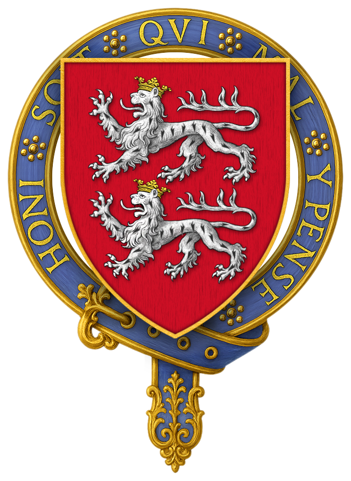 Sir Thomas Felton, KG BELTZ, George Frederick, Memorials of the Order of the Garter from Its Foundation to the Present Time, London: William Pickering, 1841. “ Sir Thomas Felton… Arms: Gules, two lions passant in pale Ermine, ducally crowned Or. ”